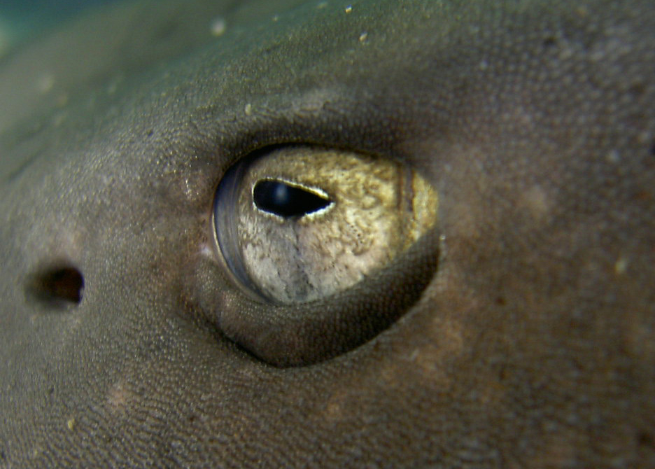 shark spiracle and eye